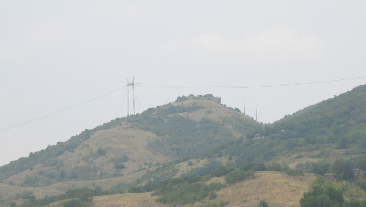 Remains of Kurvingrad fortress above above confluence of Toplica in South Morava near Niš from E75 highway, Serbia